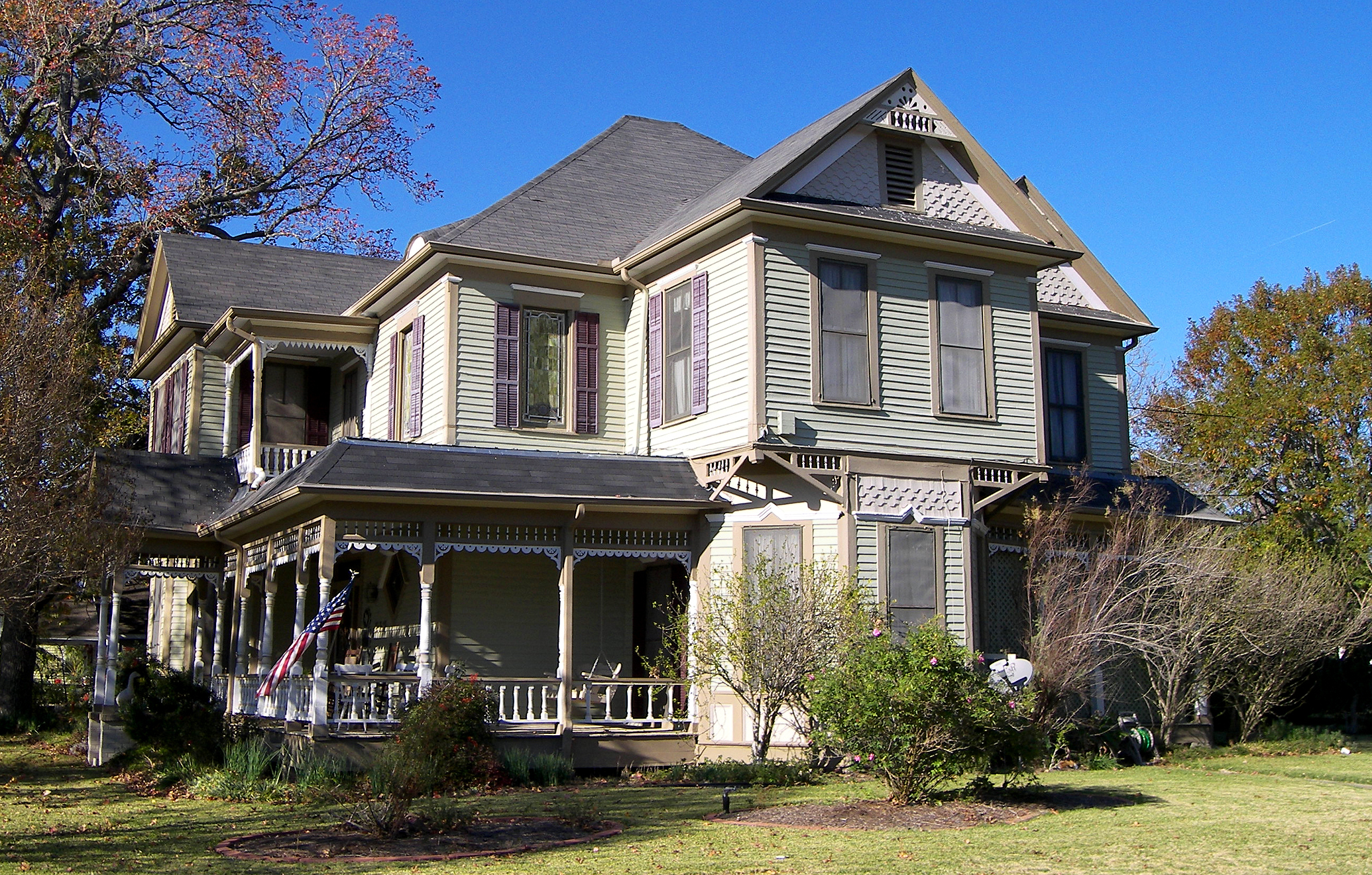 The Steele House, Navasota, Texas, United States. The house was listed on the National Register of Historic Places on June 13, 1978.